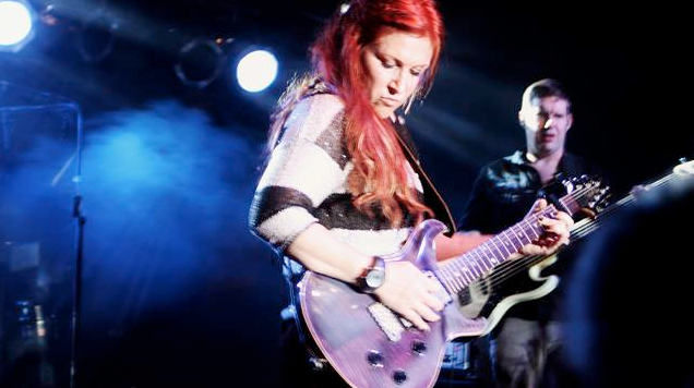 Jo Dee Messina playing guitar in 2013